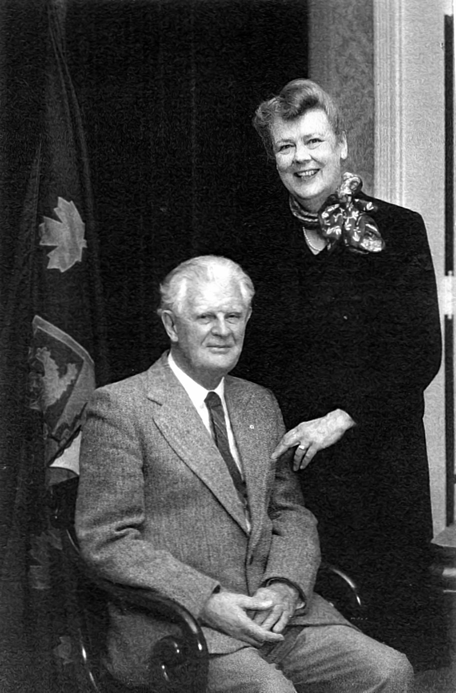 I have permission to use this photo from Ruth Stanley.